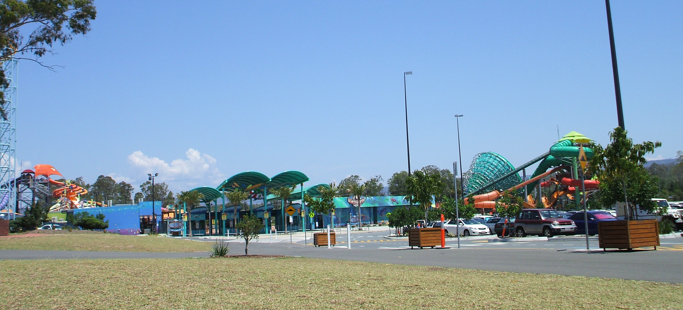 A view across part of the Dreamworld carpark towards WhiteWater World.